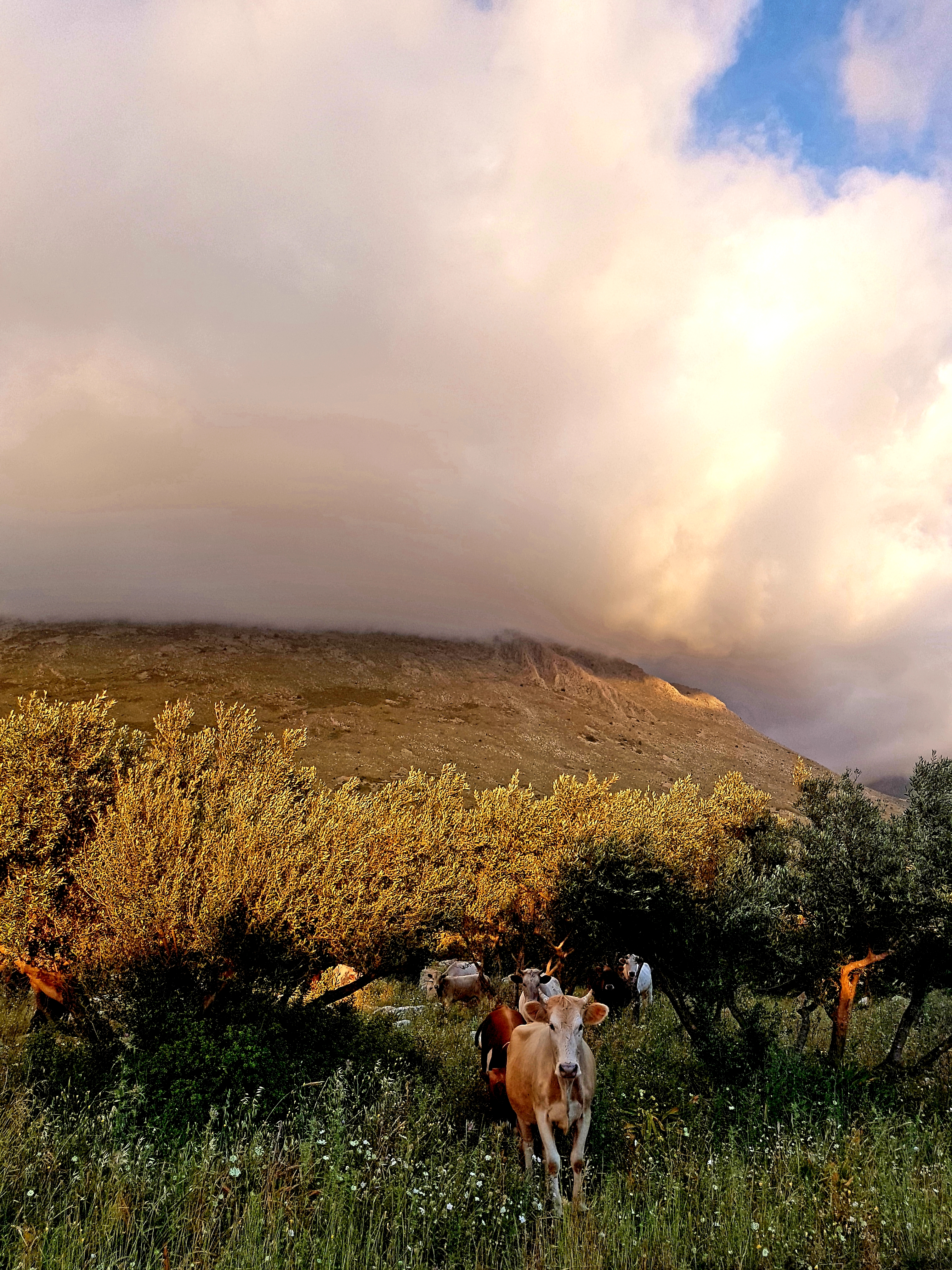 This is a photography of Natura 2000 protected area with ID GR2540008